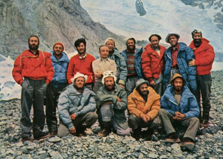 Italian K2 expedition at base camp after ascent of K2. Identifications: from left standing: Ubaldo Rey, Ugo Angelino, Walter Bonatti, Ardito Desio, Lino Lacedelli, Erich Abram, Gino Soldà, Achille Compagnoni, Cirillo Floreanini. From left seated: Sergio Viotto, Mario Fantin, Guido Pagani, Pino Gallotti.